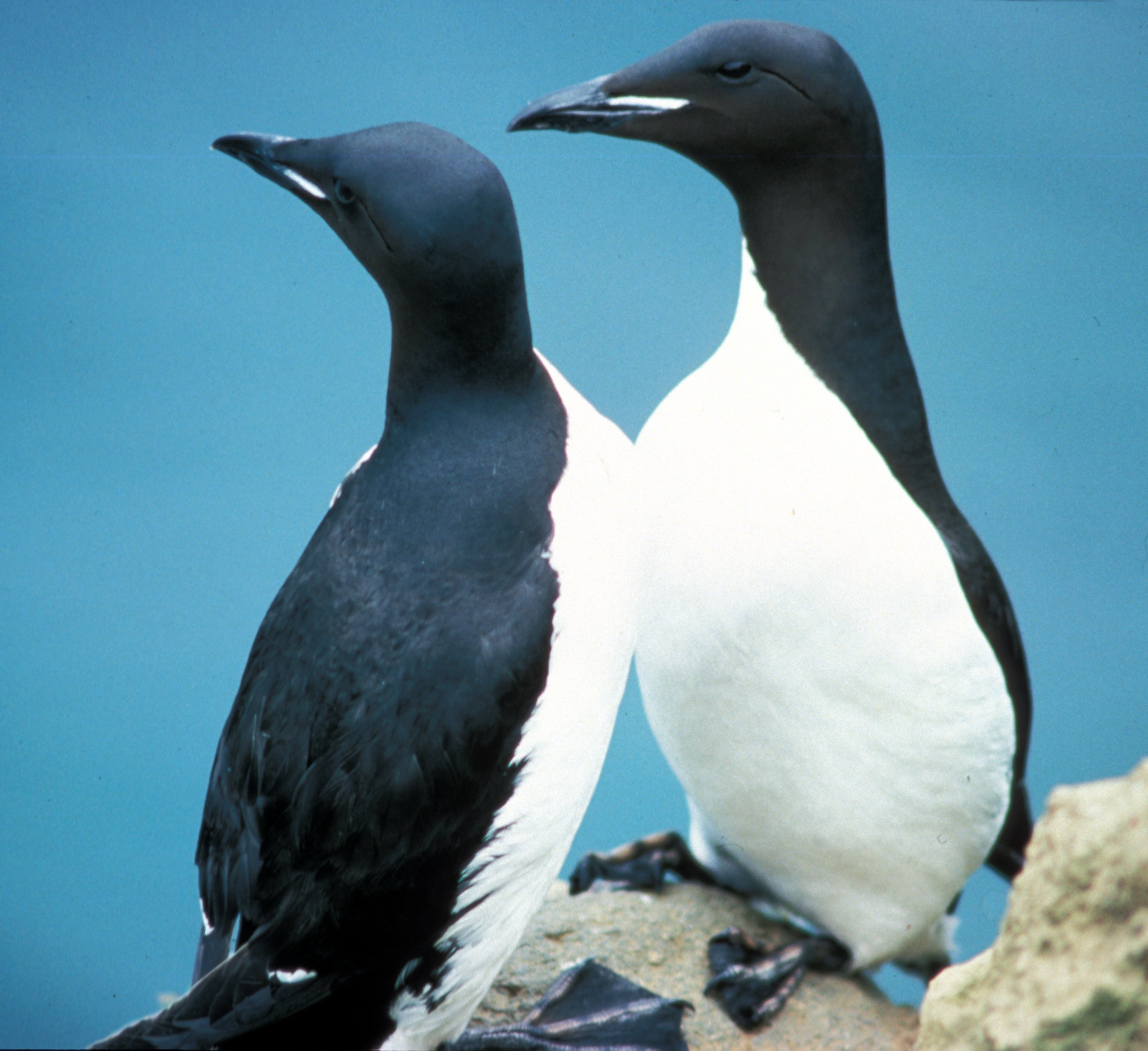 Thick-billed murres. Alaska.